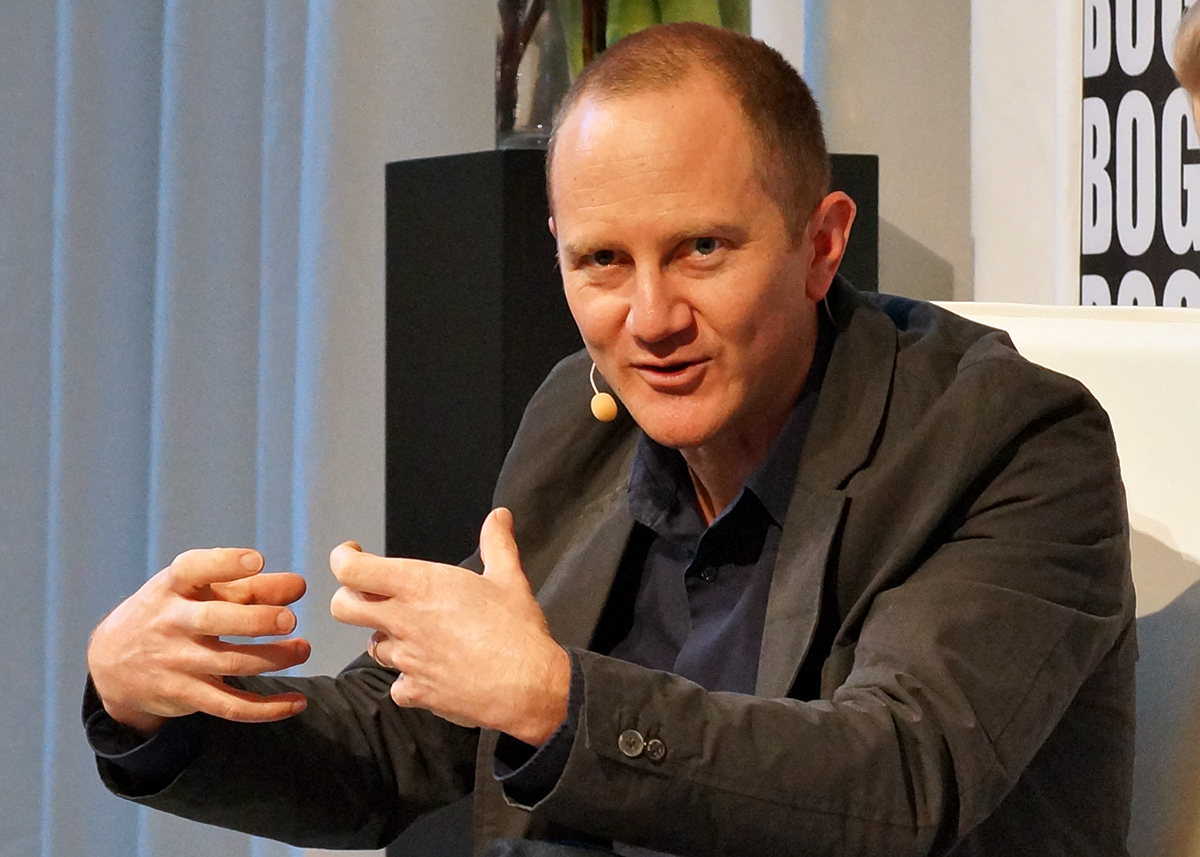 Chris Cleave - British journalist and writer at the Copenhagen Book Fair "BogForum 2012", Copenhagen, Denmark